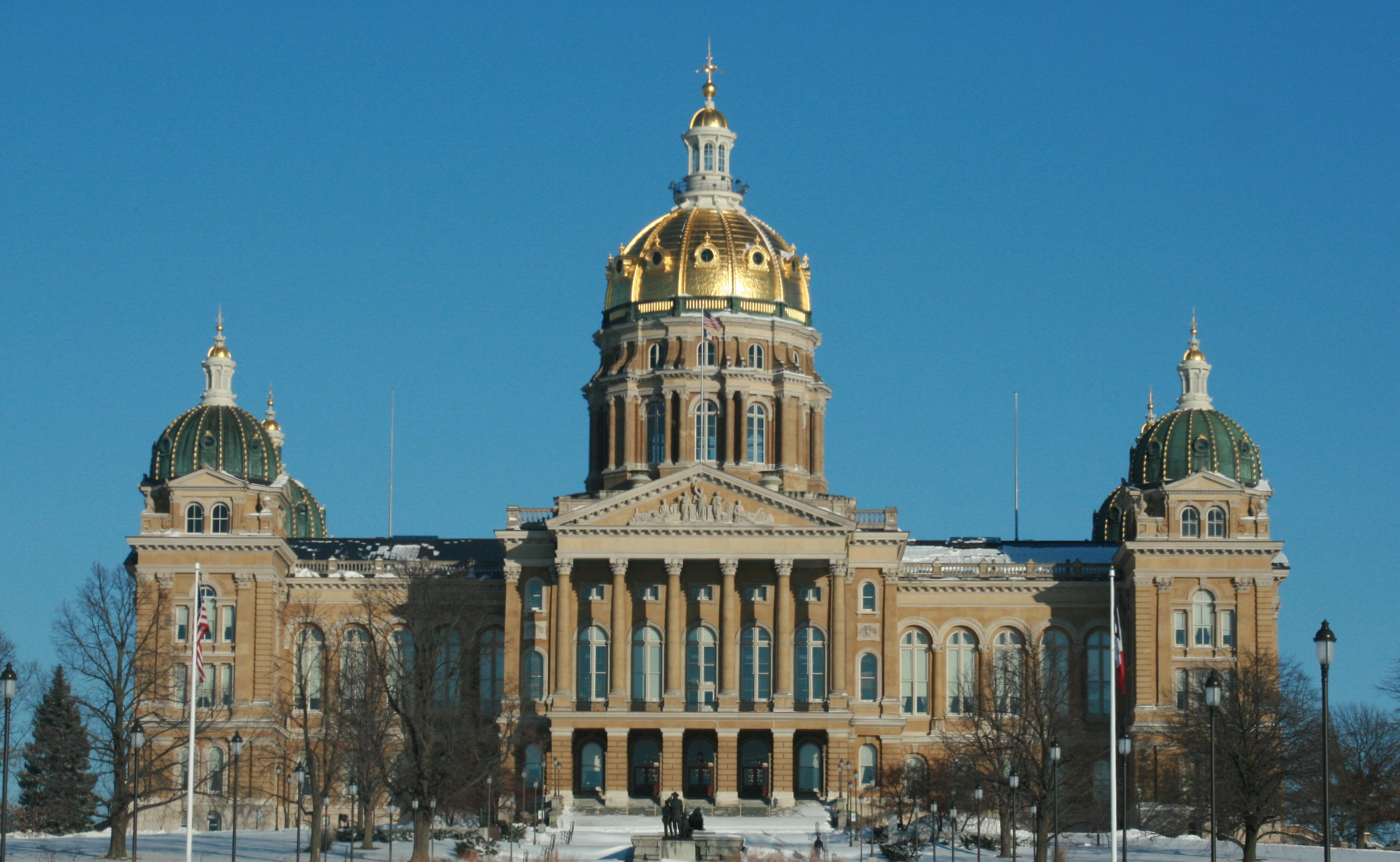 View of the State Capitol Building in Des Moines, Iowa